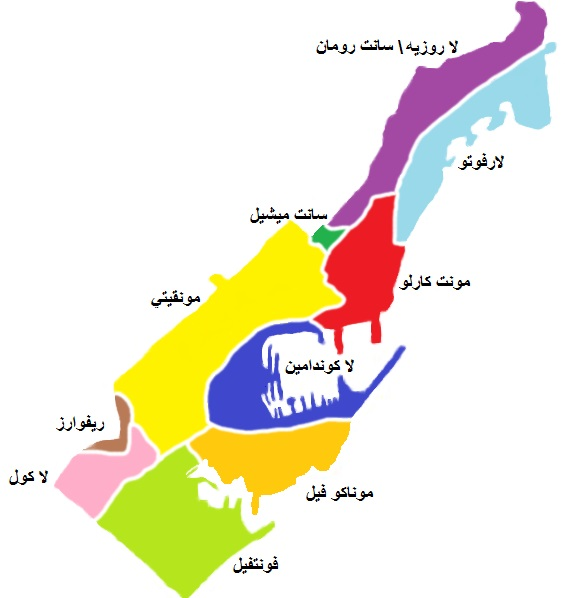 Monaco wards